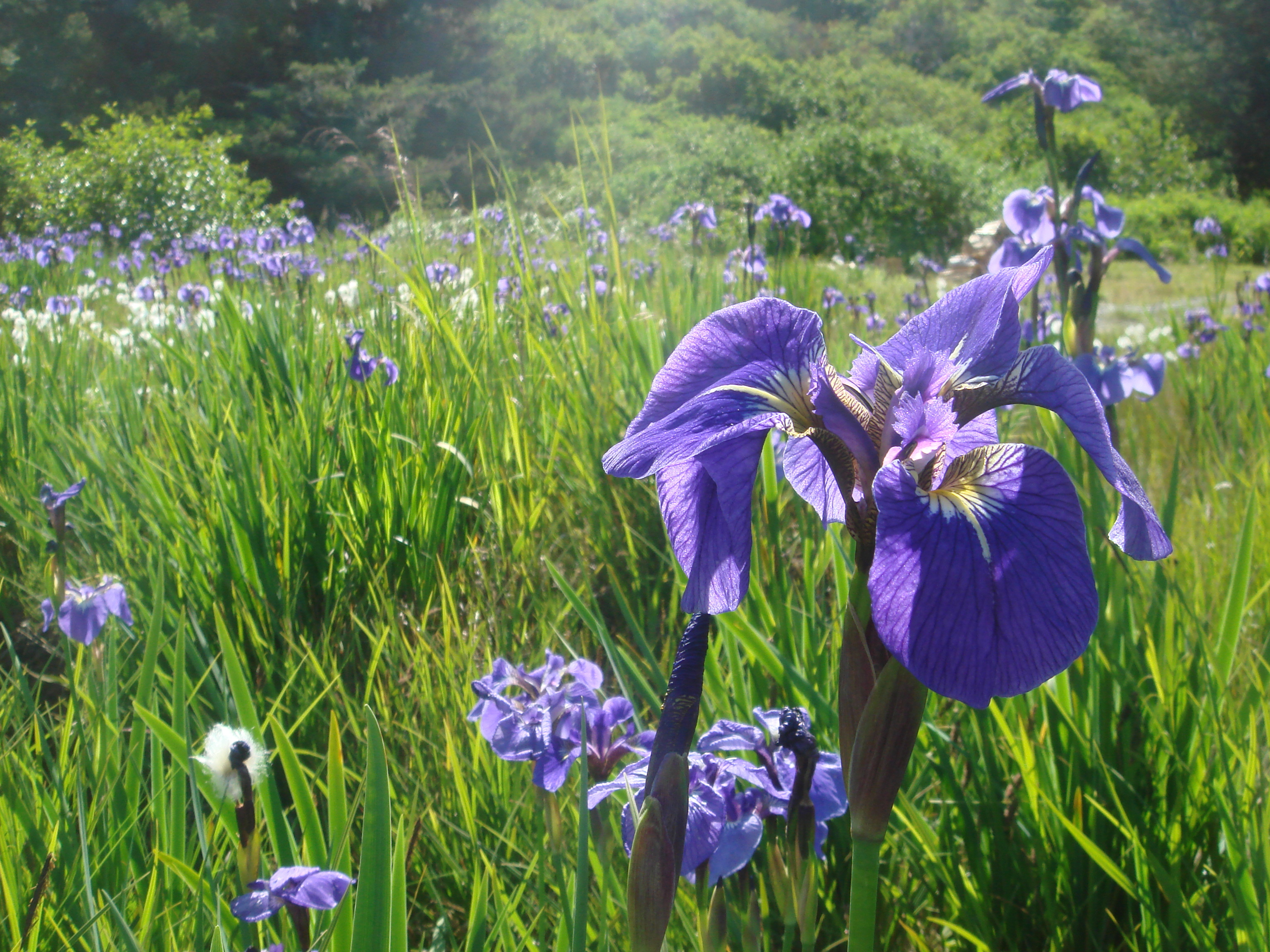 A field of wild purple iris in bloom on Raspberry Island, Alaska.